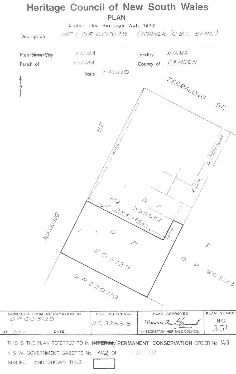 CBC Bank Building, Kiama: PCO Plan Number 143